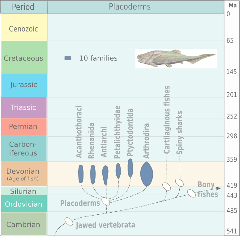 Evolution of the now extinct placoderms fishes during the Devonian and the early Carbonifereous as a spindle diagram. The width of the spindles are proportional to the number of families as a rough estimate of diversity. The diagram is based on Benton, M. J. (2005) Vertebrate Palaeontology, Blackwell, 3rd edition, Fig 3.25 on page 73.